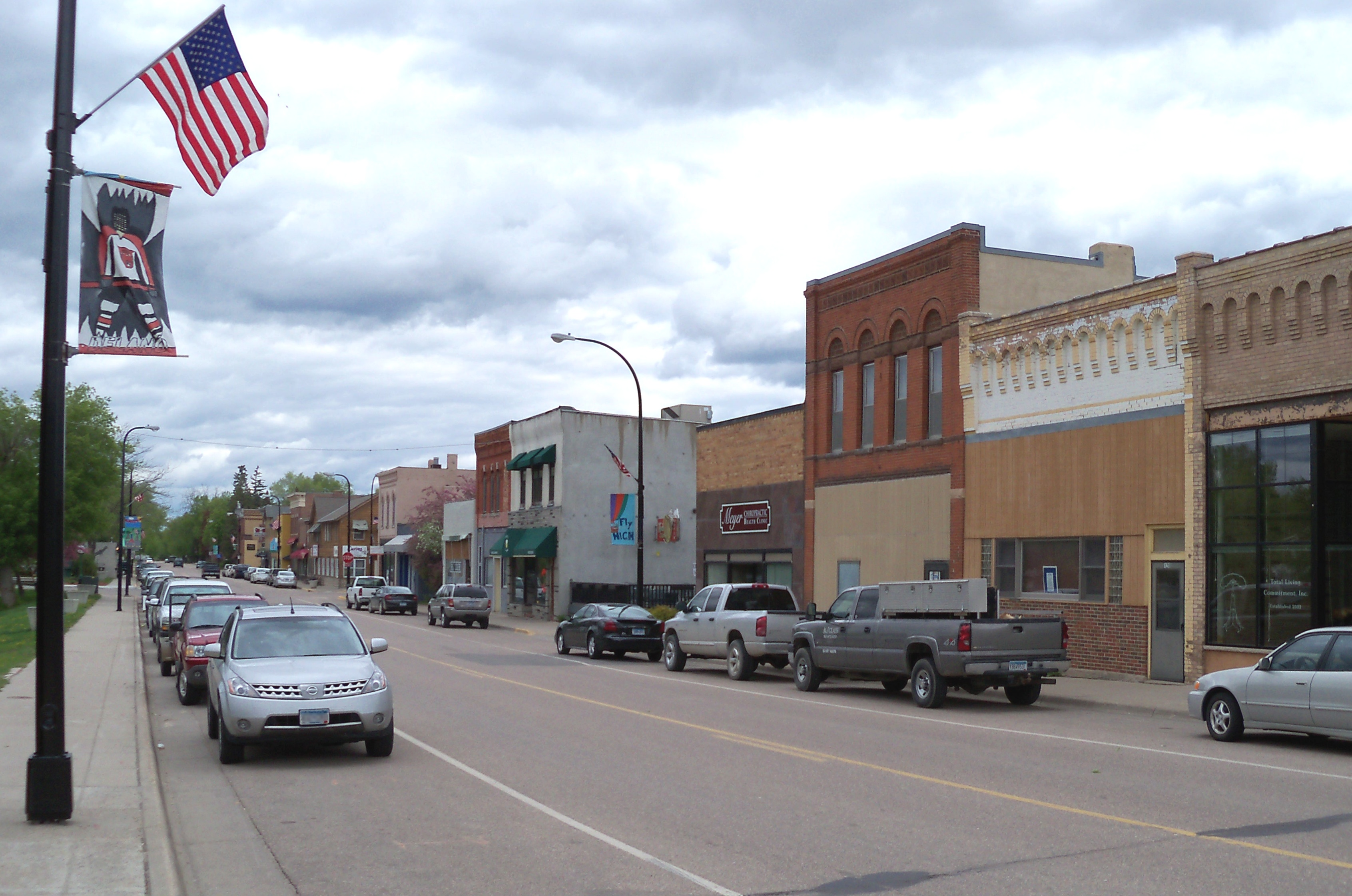 Downtown Delano, Minnesota, USA.